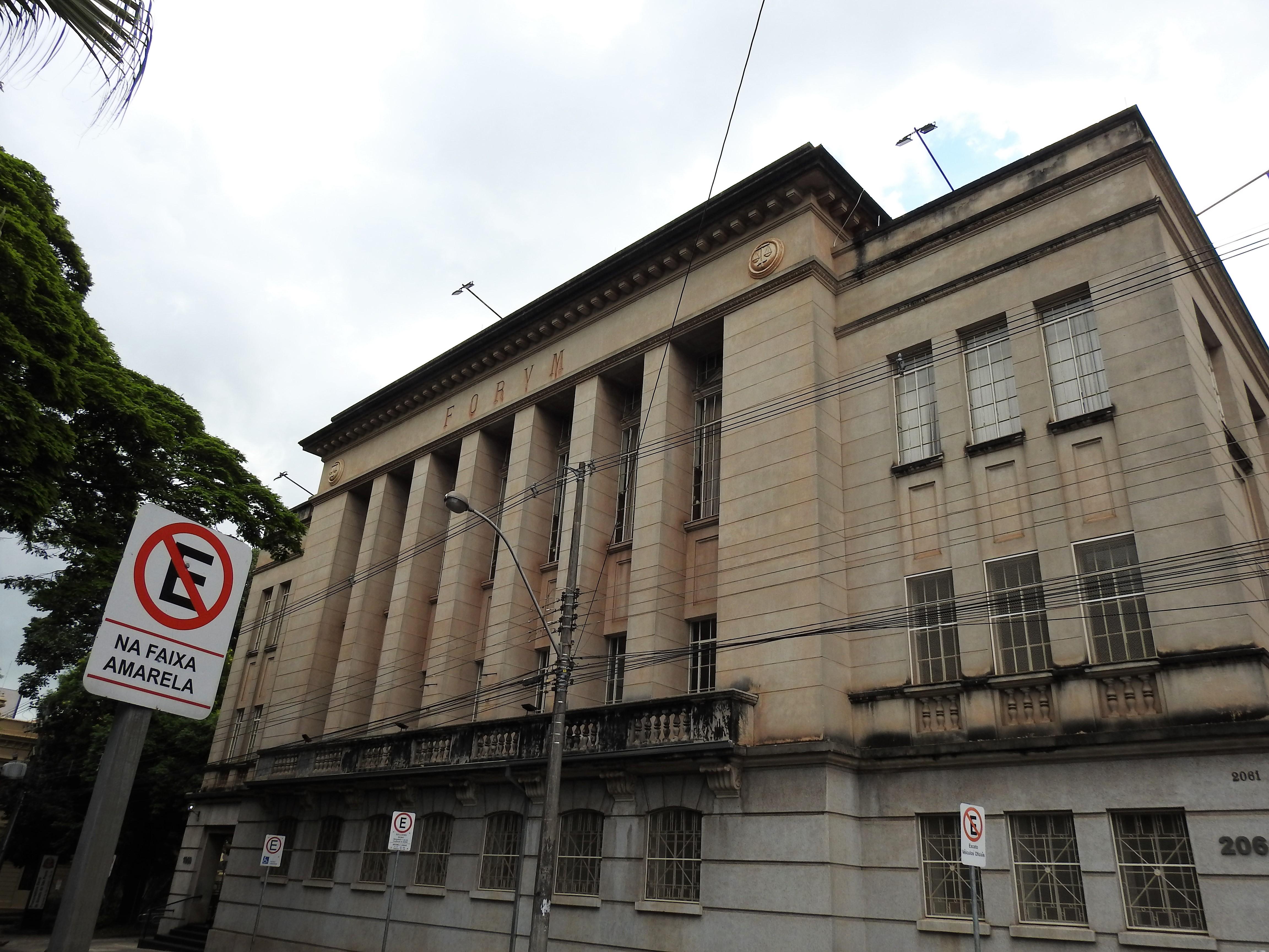 São Carlos is a city of 221,950 inhabitants (IBGE/2010) in the state of São Paulo, Brazil. It is located at 22°01′04″S 47°53′27″W, at about 231 km from the city of São Paulo.